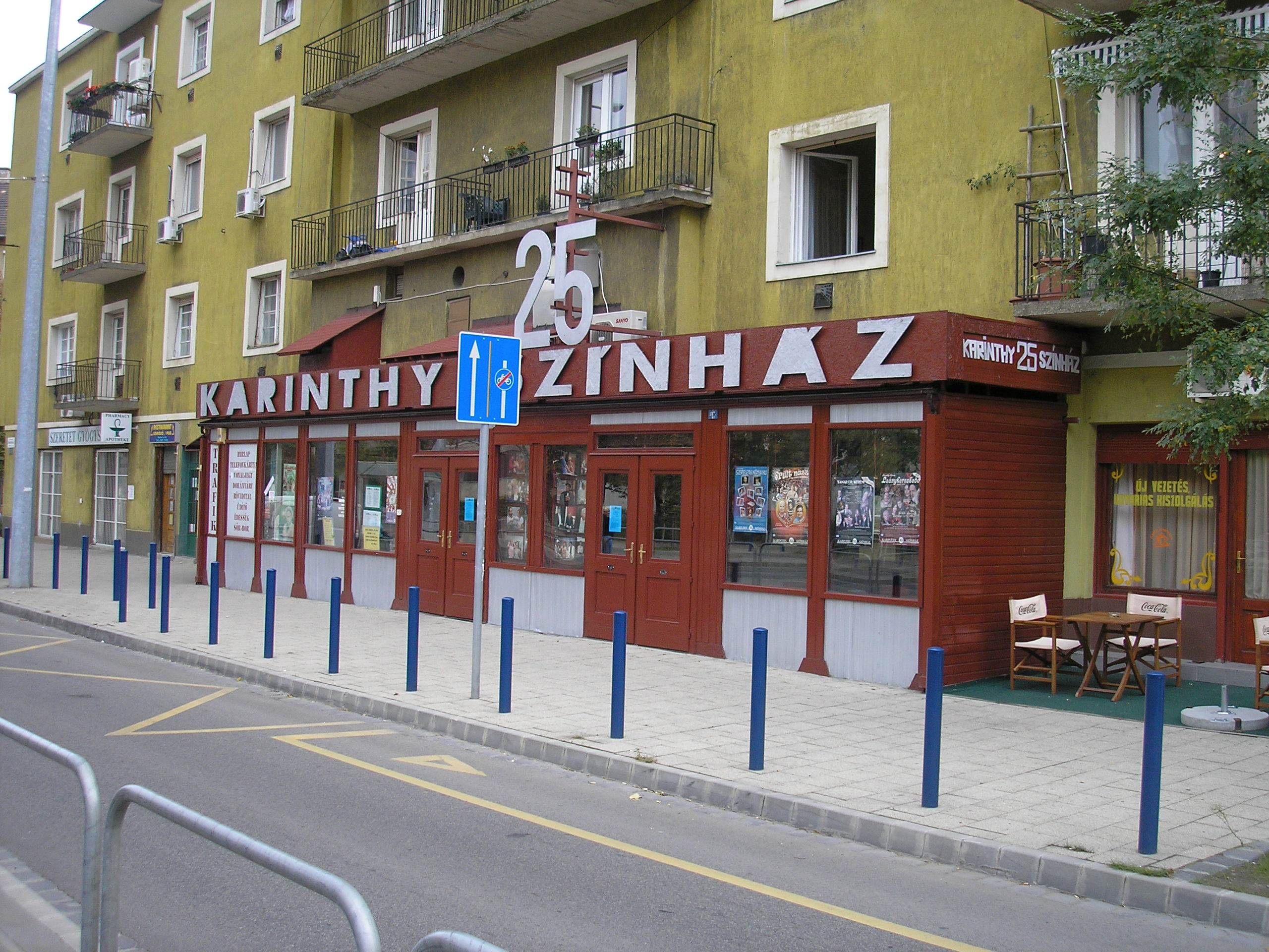 Karinthy Theatre, former cinema Haladás in Budapest, 2007